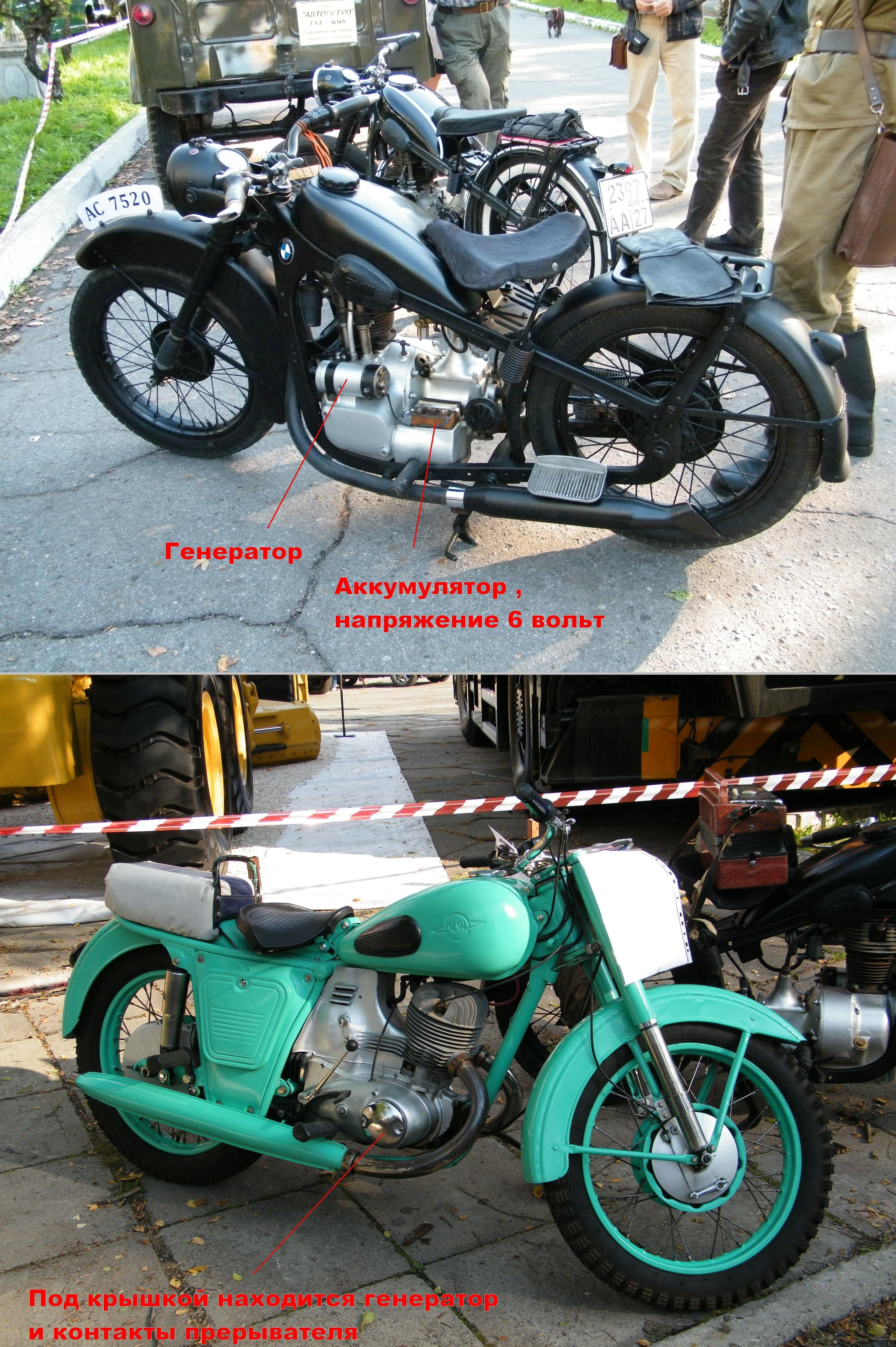 Мотоциклы BMW и ИЖ-56